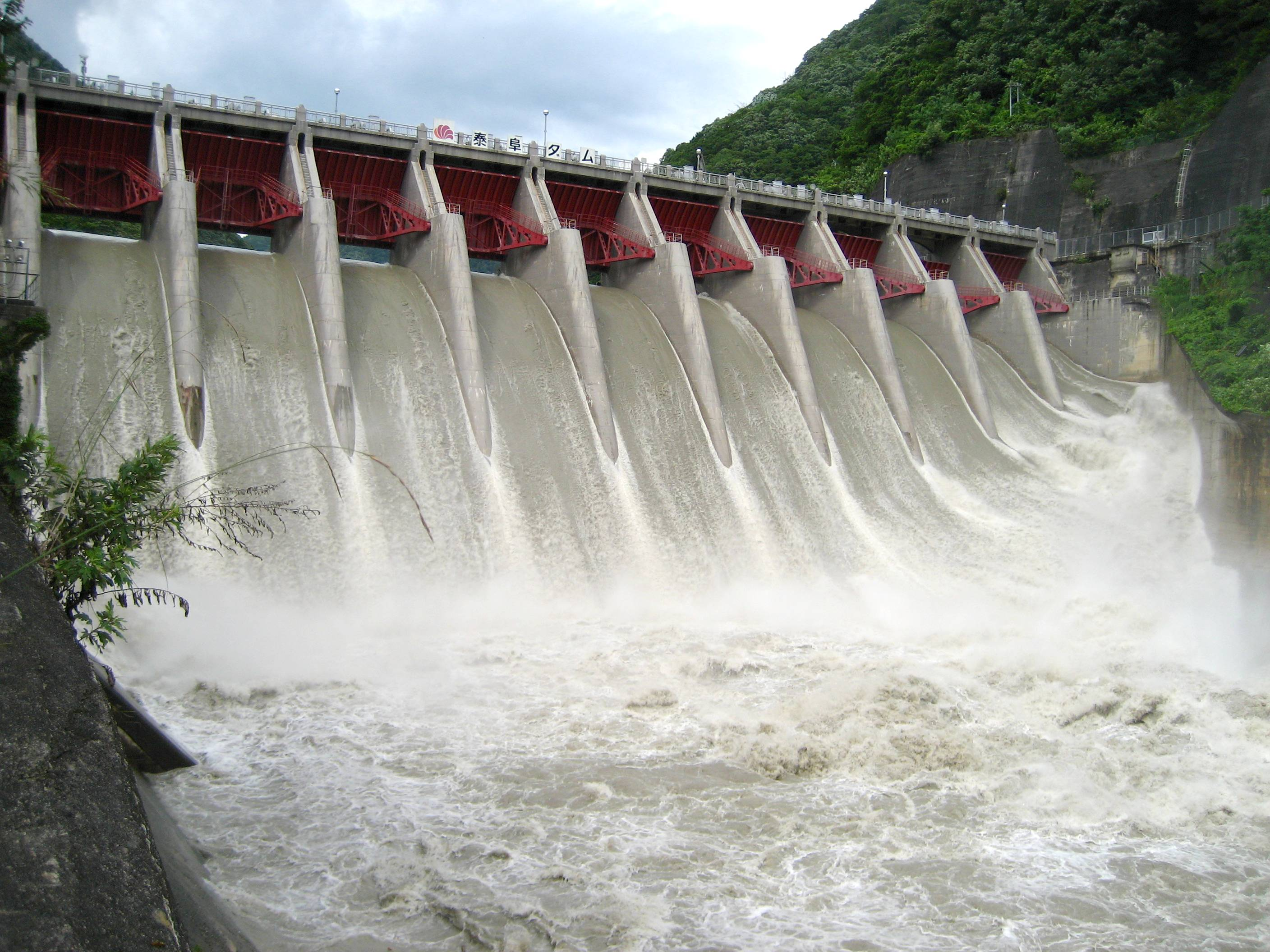 Yasuoka Dam (泰阜ダム) in Yasuoka village, Nagano prefecture, Japan.